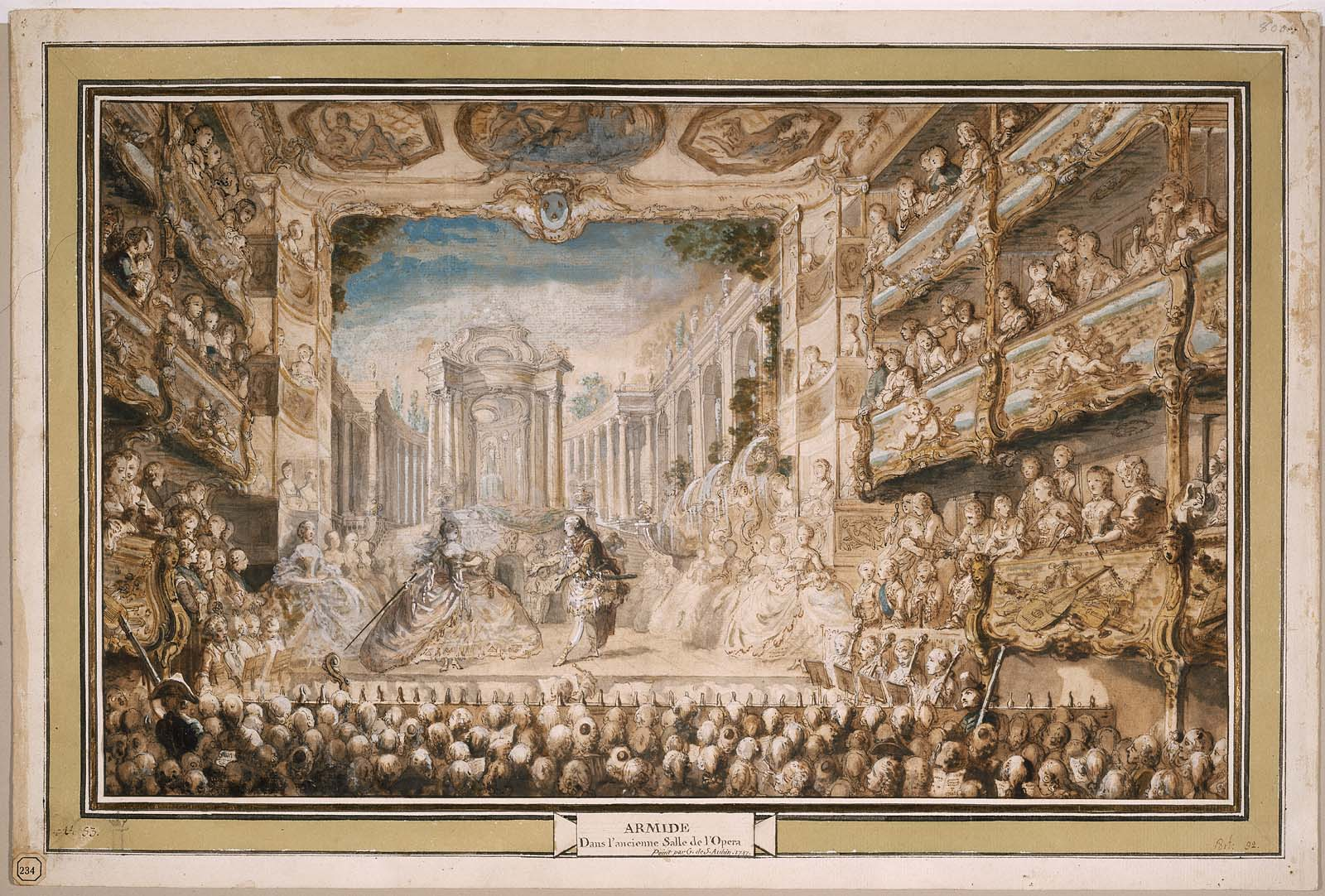 Quinault and Lully's opera Armide Performed at the Palais-Royal Opera House 1761 (31.1 x 50.2 cm) Pen and brown ink, watercolor and gouache over graphite pencil on paper [Classification: Watercolors]